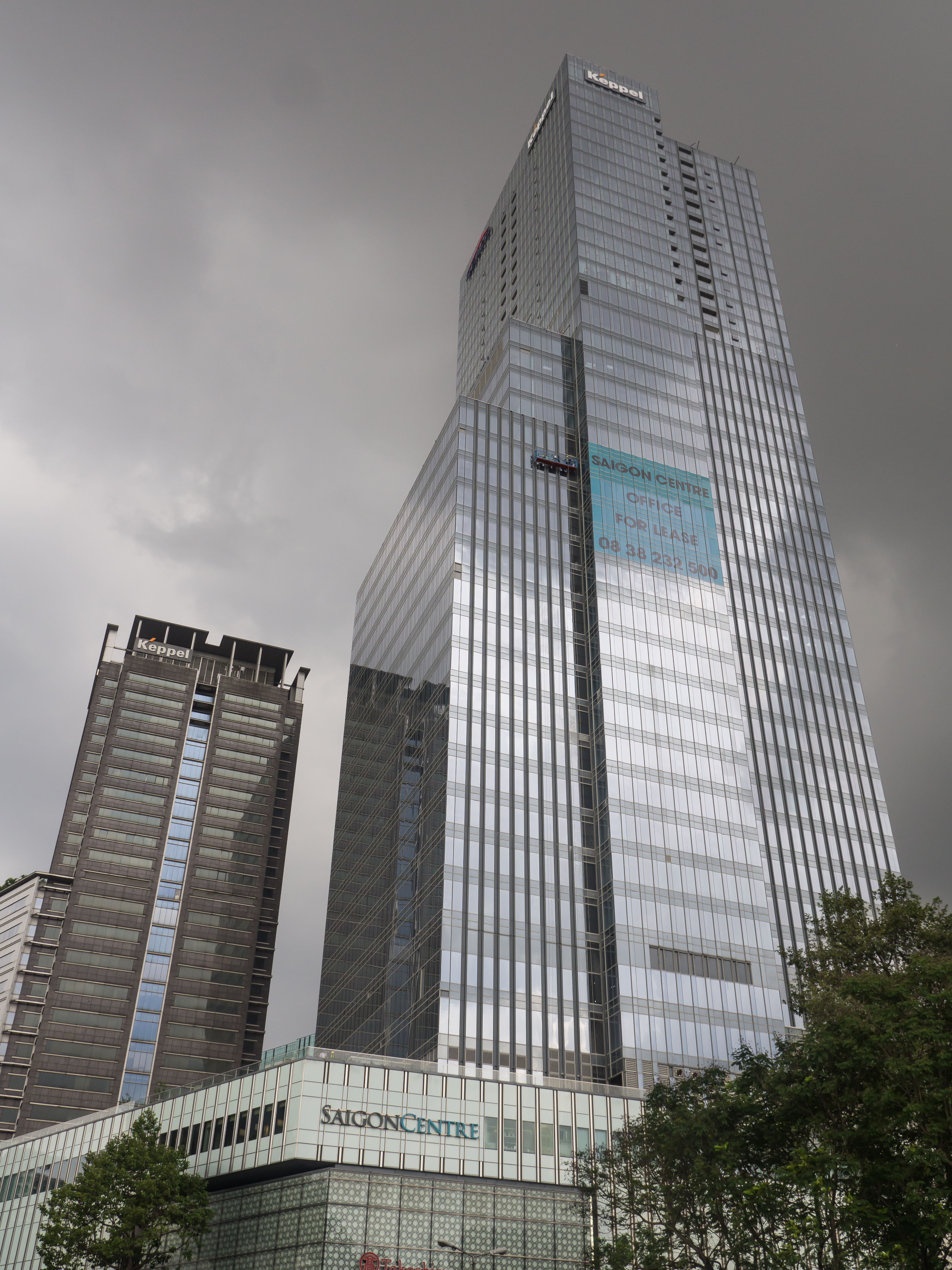 The photo shows the two towers of Saigon Centre in District 1, Ho Chi Minh City, Vietnam.